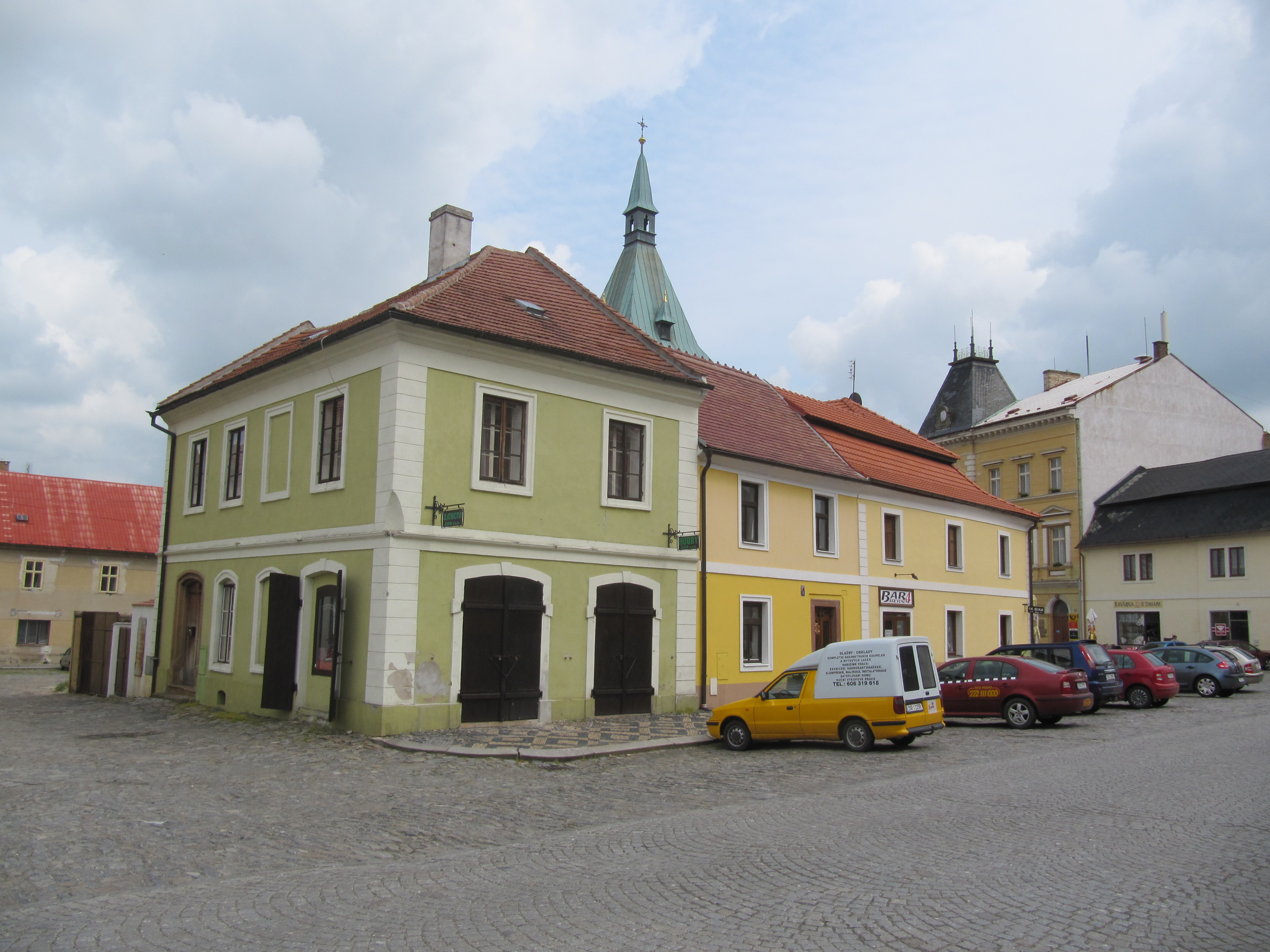 Kouřim im Kreis Kolín, Tschechien. Mírové náměstí square.